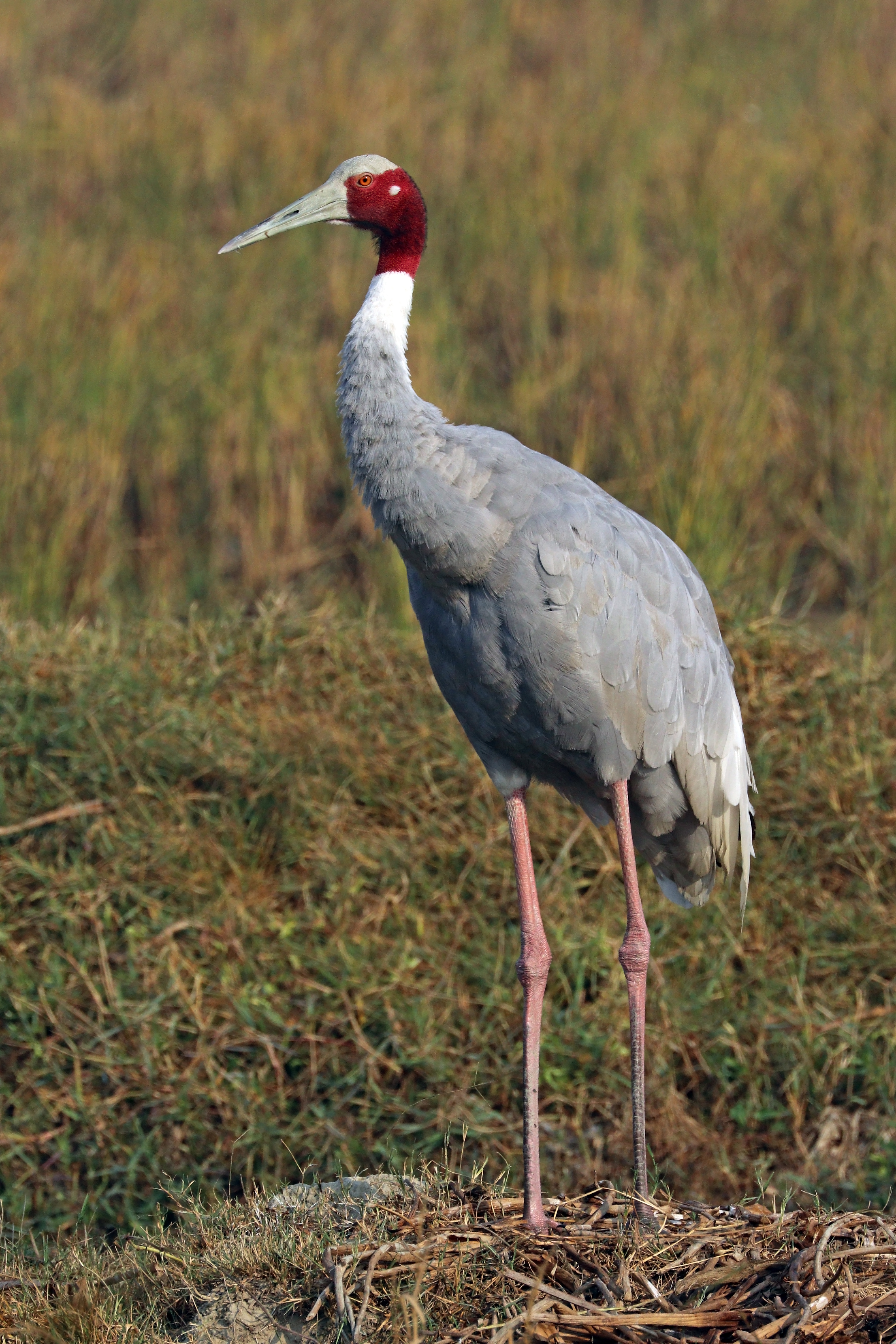 Sarus crane (Grus antigone), Salai, UP, India